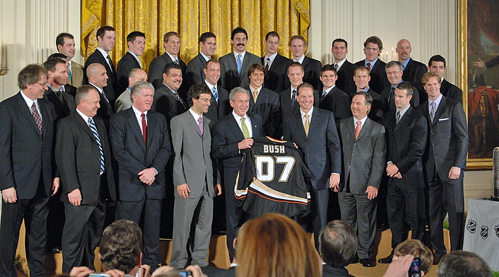 President George W. Bush welcomes the Anaheim Ducks, winners of the NHL's 2007 Stanley Cup Championship